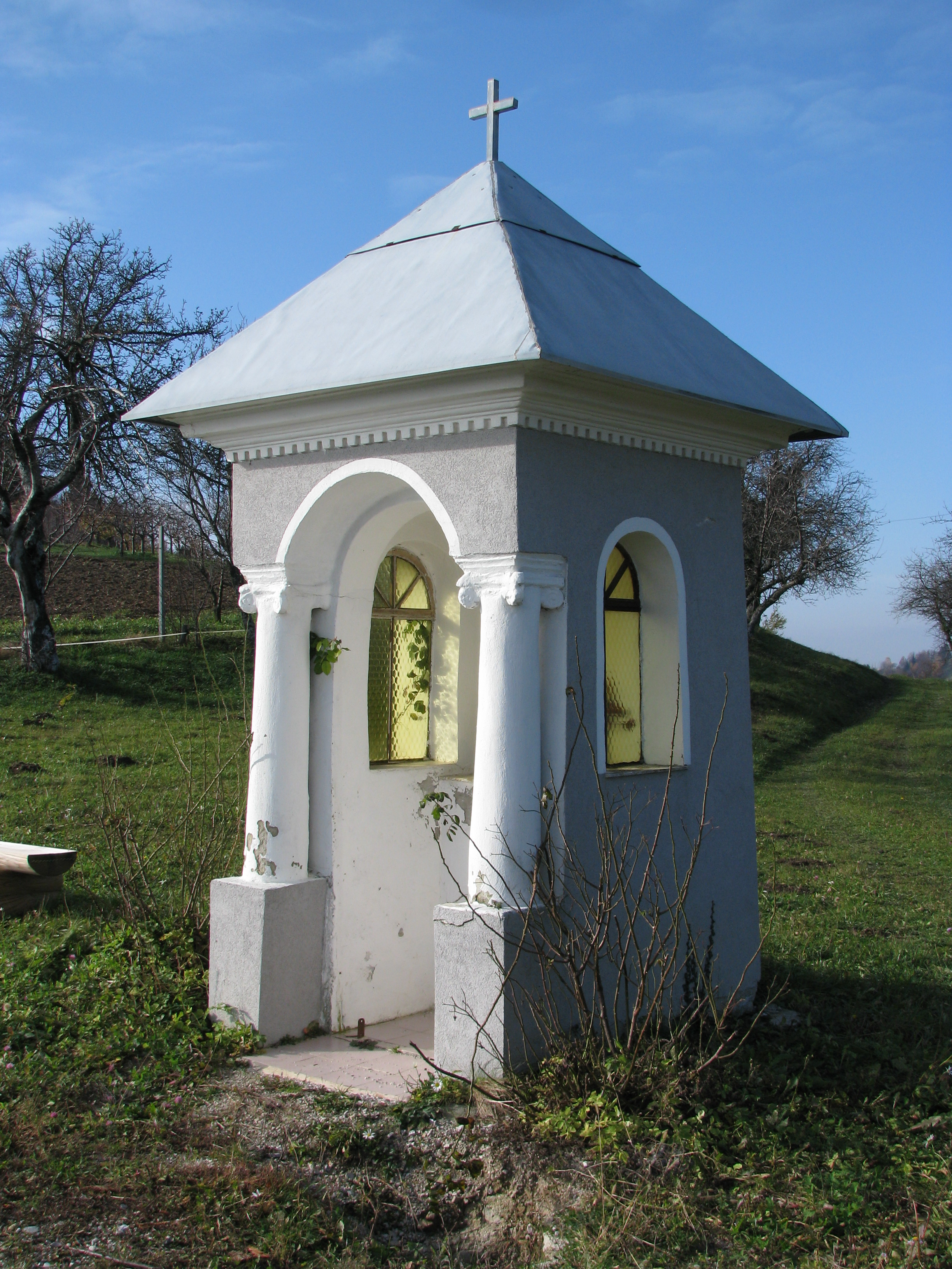 "Črnivčeva kapelica" chapel in Vnajnarje, Slovenia